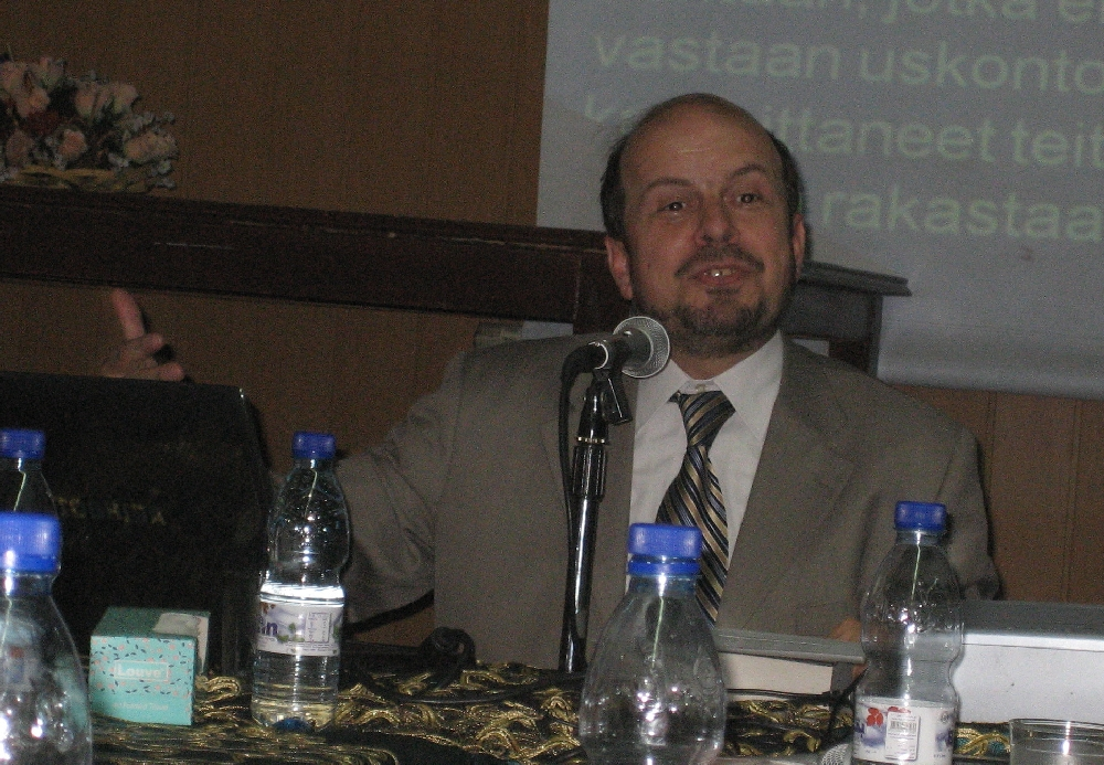 Dr. Mohammad Al-Habash giving a lecture at the Islamic Studies Center in Damascus, Syria